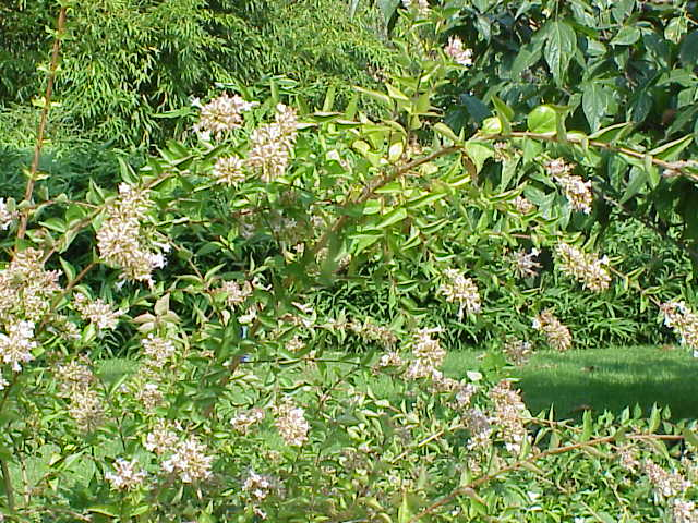 Species: Abelia chinensis Family: Caprifoliaceae Image No. 4